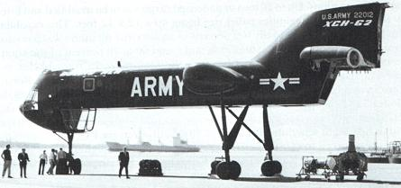 Boeing XCH-62A HLH incomplete prototype.